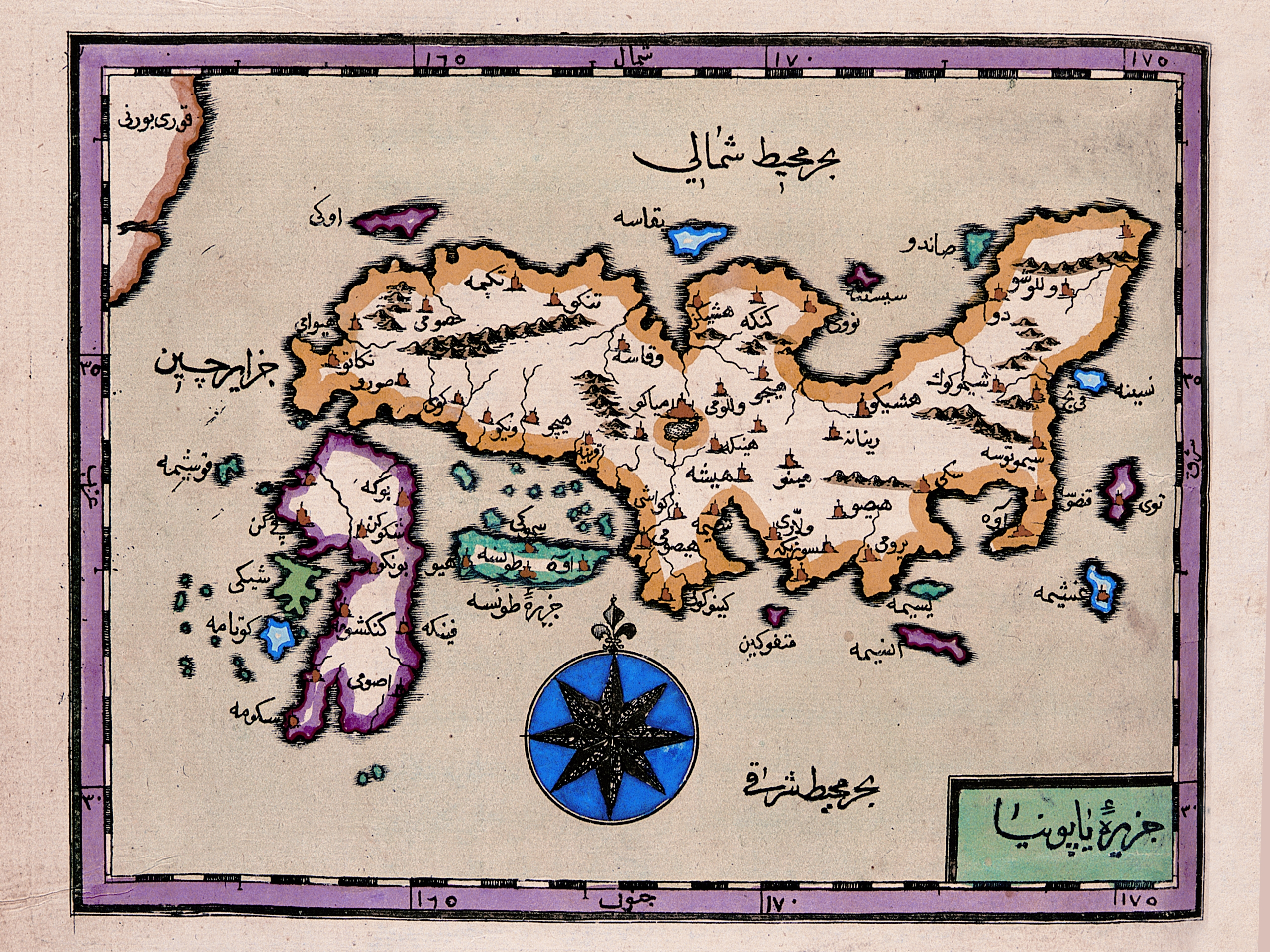 Was “Waqwaq” Japan? Ibn Khurradadhbih mentions it as lying “east of China,” but nothing else in his description seems to apply to Japan, and no other early Muslim geographer mentions the country. By Müteferrika’s time, however, Japan was well enough knows for a tolerable depiction of it to appear in the Cihannuma, under the name جزیرهٔ یاپونیا jazīra-ye yāpūniyā, “Island of Yāpūniyā”.